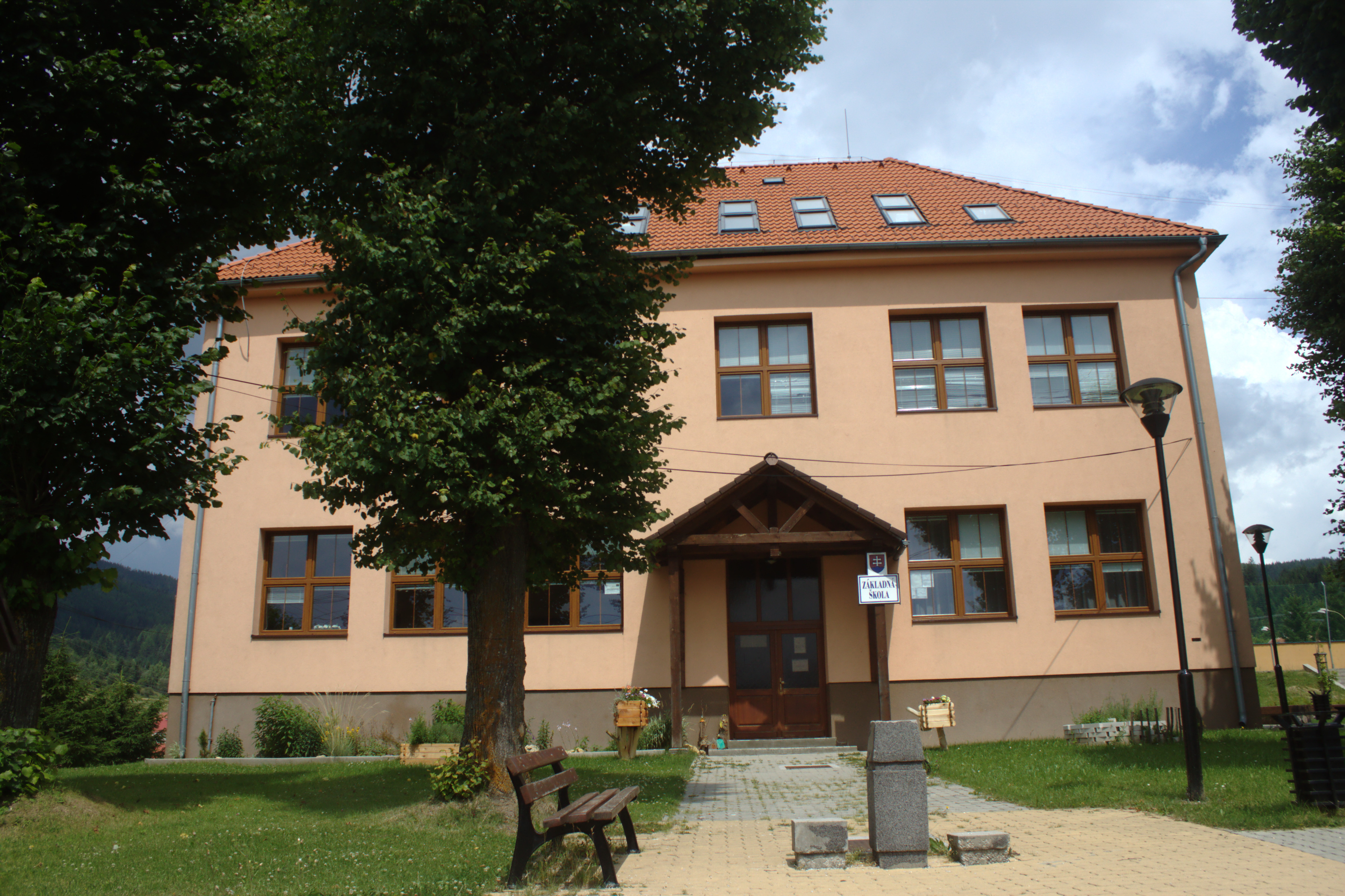 Town hall in Telgárt, Slovakia